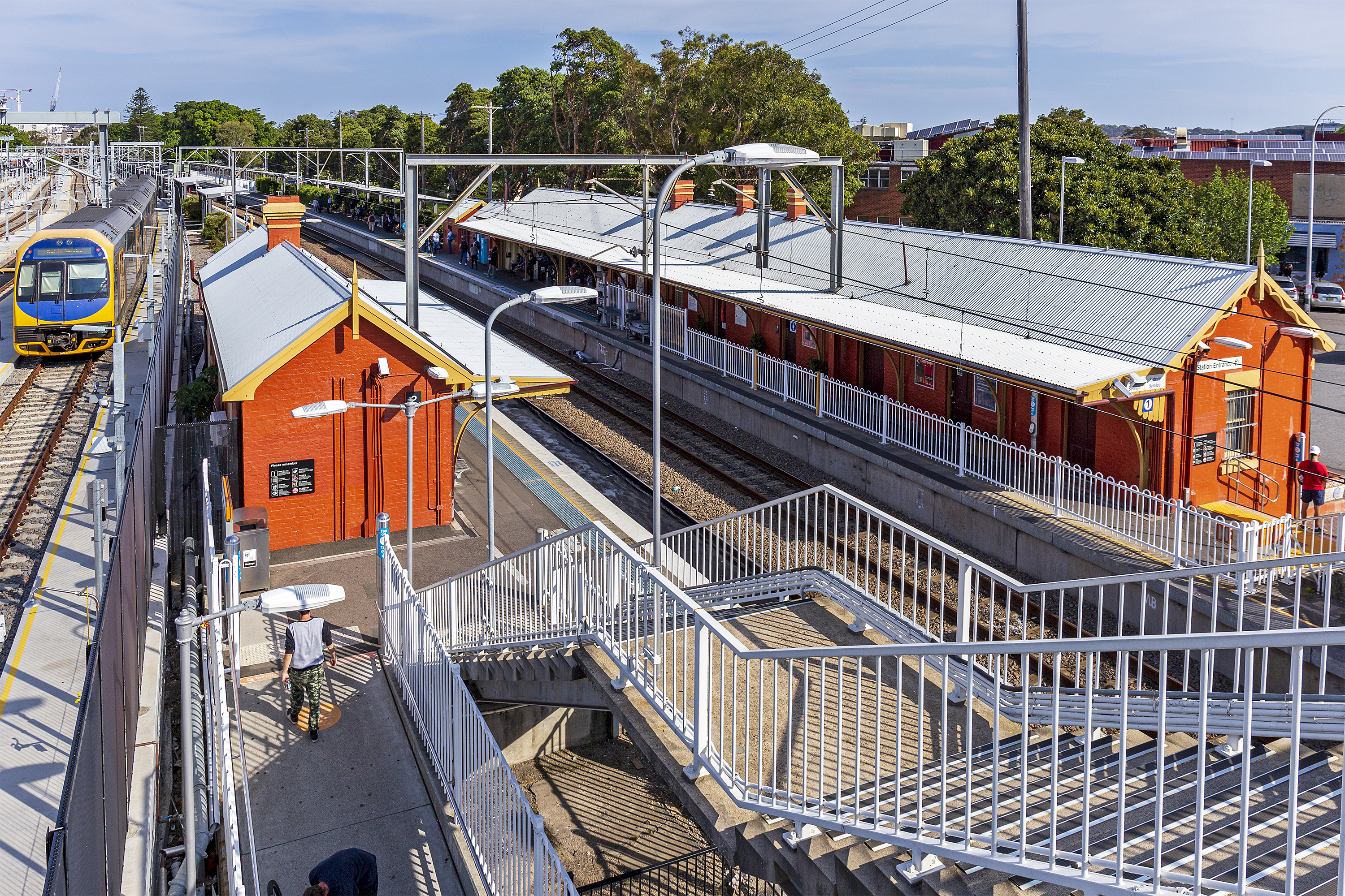 Hamilton Station